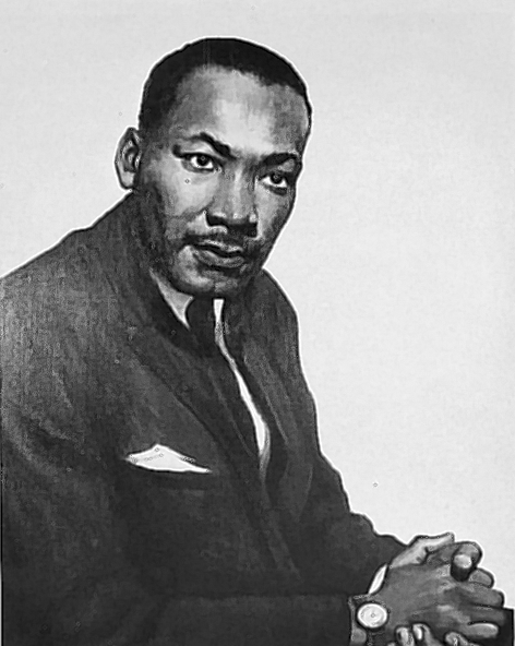 Portrait of Dr. Martin Luther King, Jr. By Betsy G. Reyneau National Archives and Records Administration Donated Collections Record Group 200 Other versions: JPG version from same original: File:Portrait of Dr. Martin Luther King, Jr..jpg